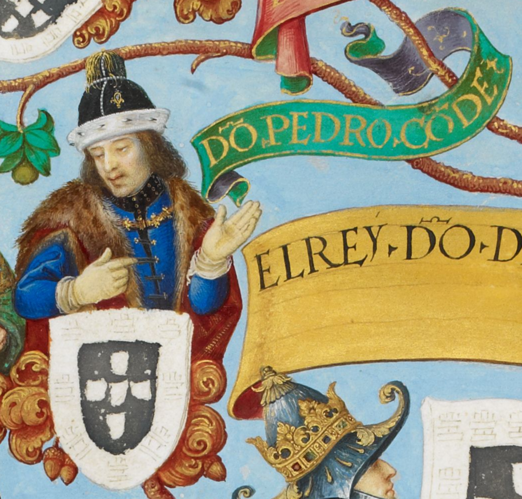 D. Pedro Afonso de Portugal, 3rd Count of Barcelos (1287-1354), illegitimate son of King Denis of Portugal.